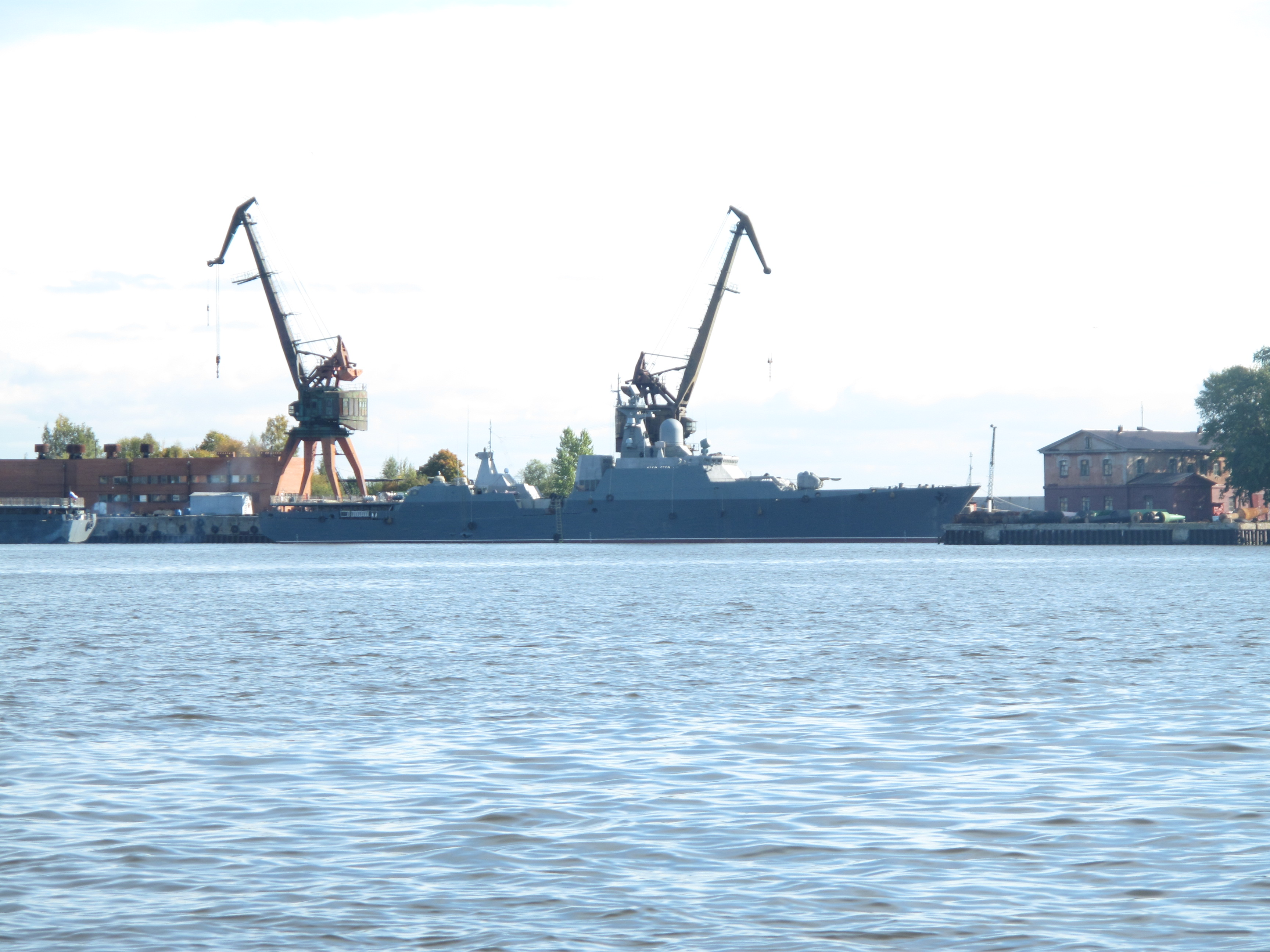 Project 11661 «Gepard 3.9» class frigate for Vietnamese Navy in Kronshtadt